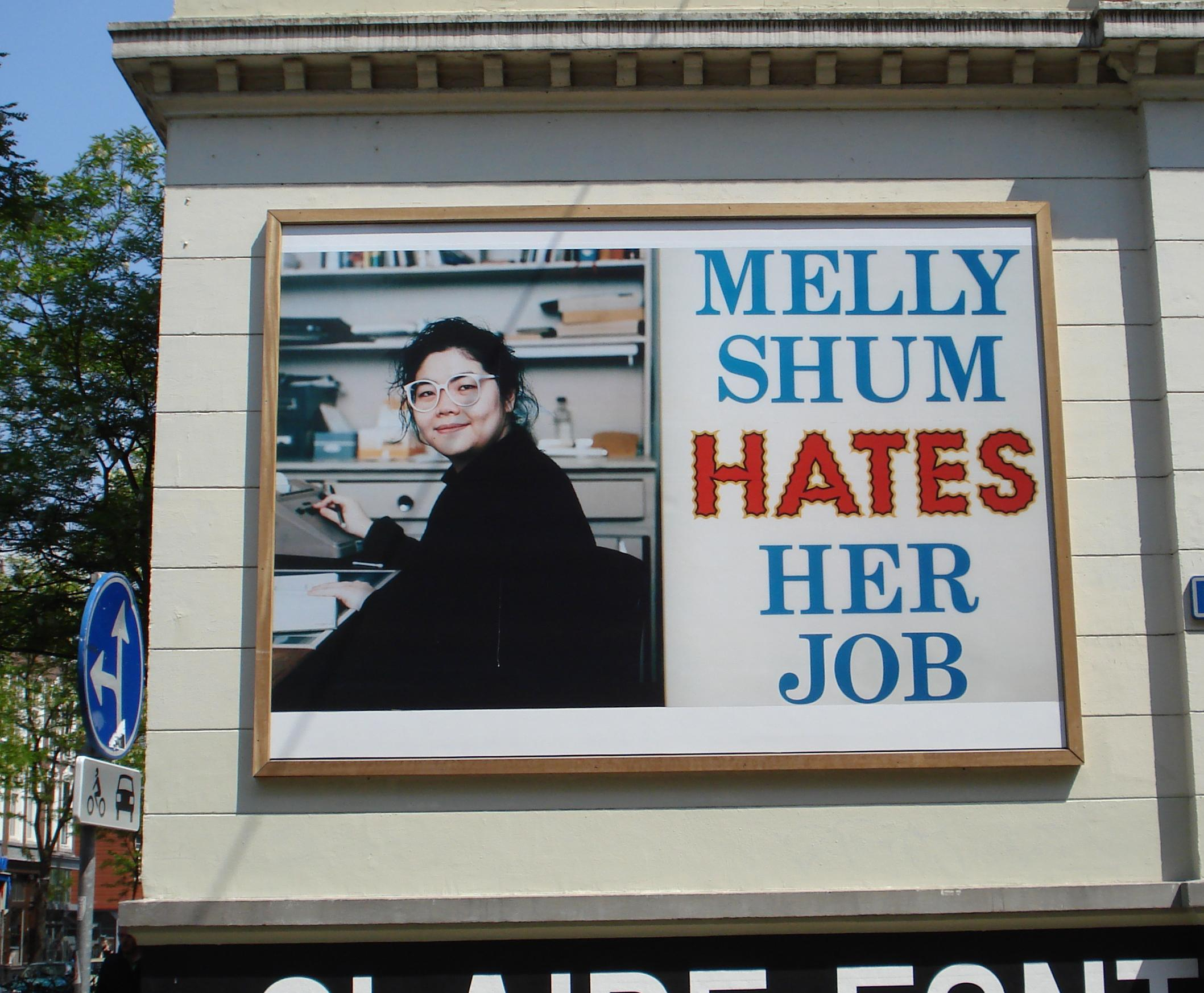 Sculpture/billboard Melly Shum Hates Her Job (1990) by Ken Lum, Witte de Withstraat in Rotterdam/The Netherlands.